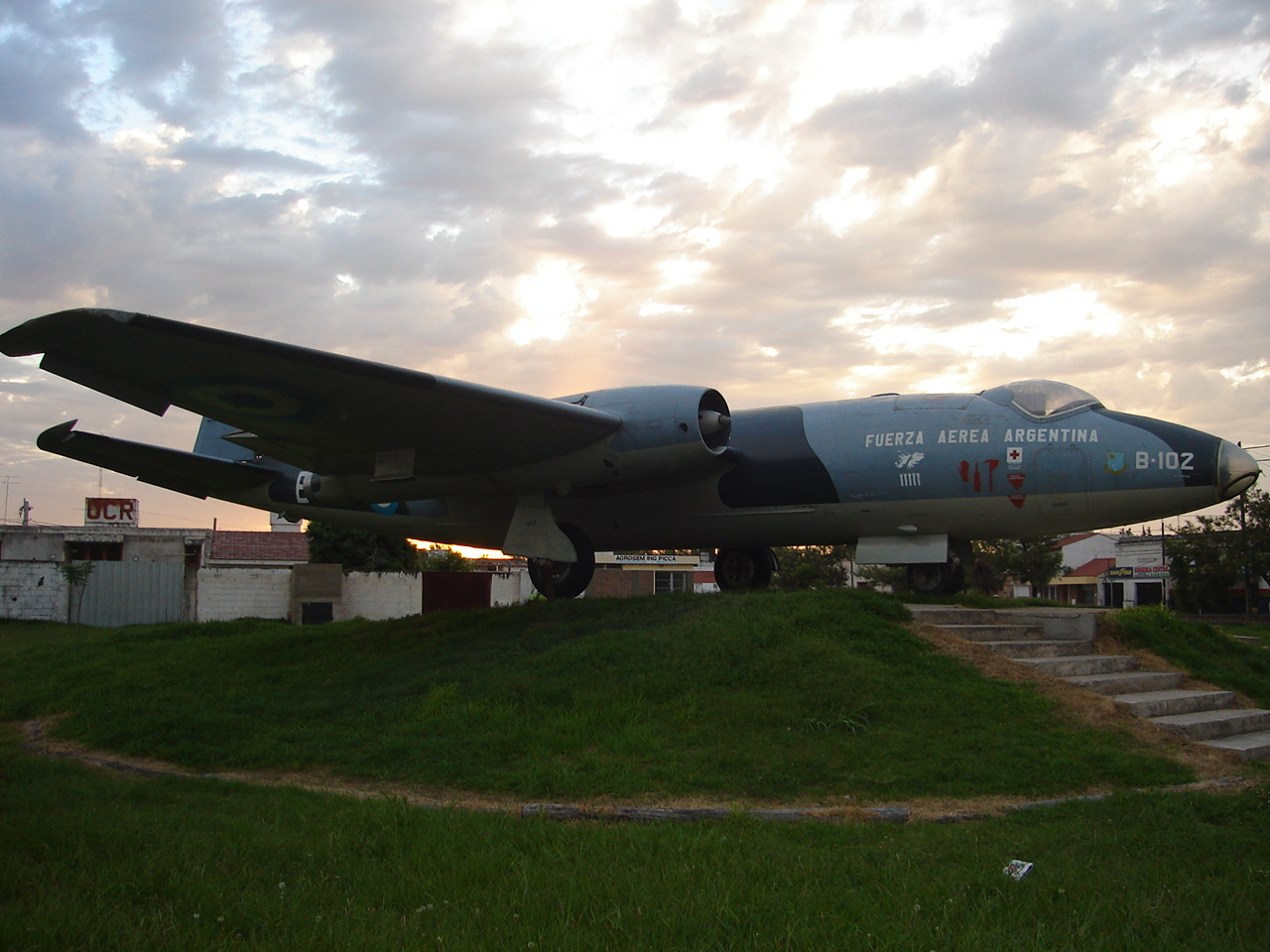 Argentine Air Force Canberra B.62 B-102 preserved at Oliva, Cordoba, Argentina. Built in 1953 as B.2 Royal Air Force WJ713. Refurbished and sold to FAA in 1969. From November 1970 used by II Brigada Aerea, Grupo de Bombardeo 1, at Parana (Entre Rios). Participated in Falklands (Malvinas) War in 1982 (Notice kill marks for bombing sorties). Retired in 1998.